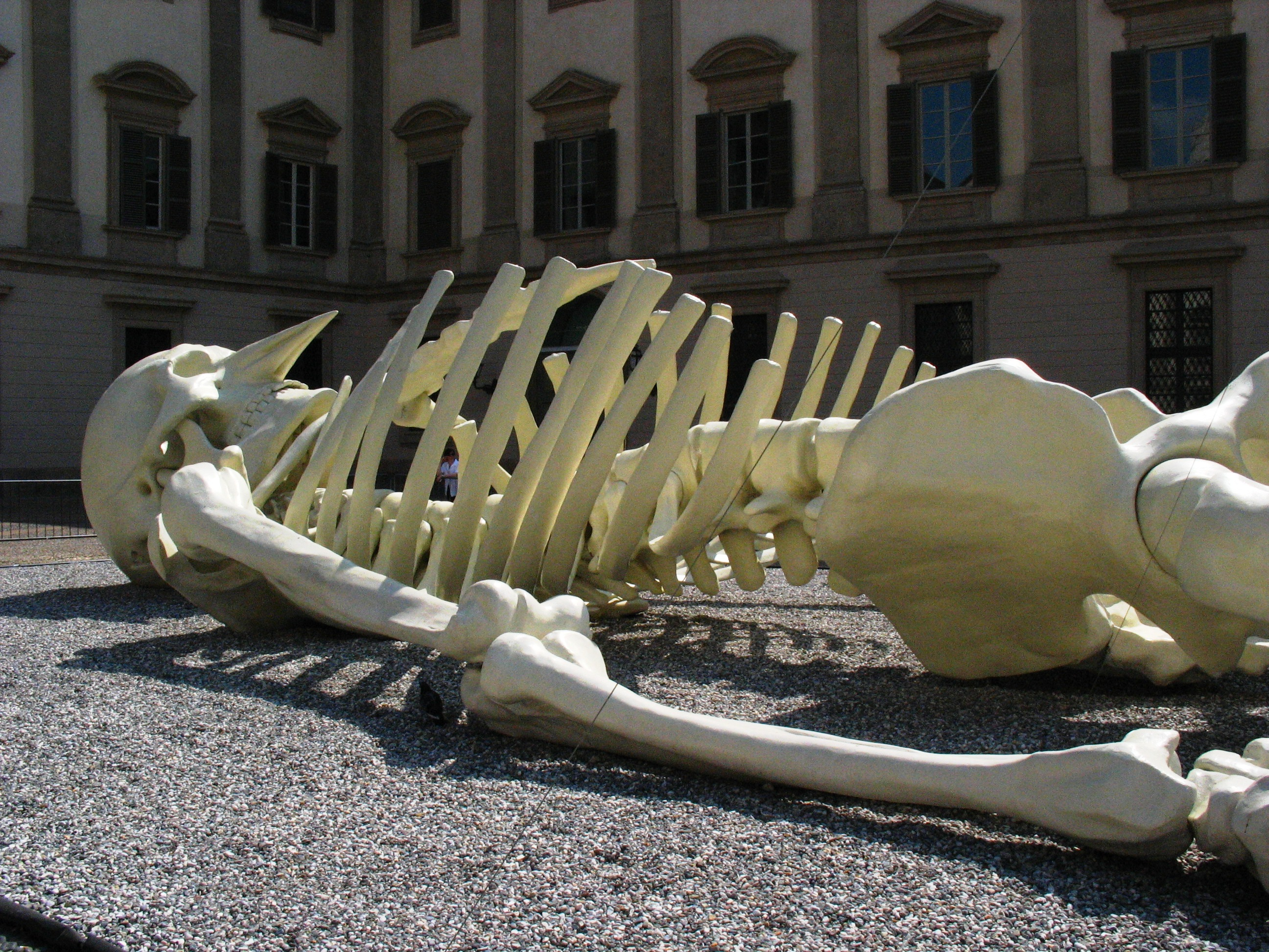 Giant skeleton with extravagant nose named "Calamita Cosmica" by artist Gino de Dominicis. Court of Palazzo Reale, Milan, Italy 2007